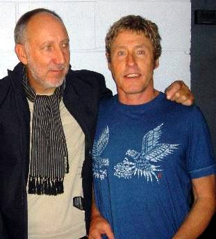 Pete Townshend en Roger Daltrey in Tokyo, Yokahama Stadium